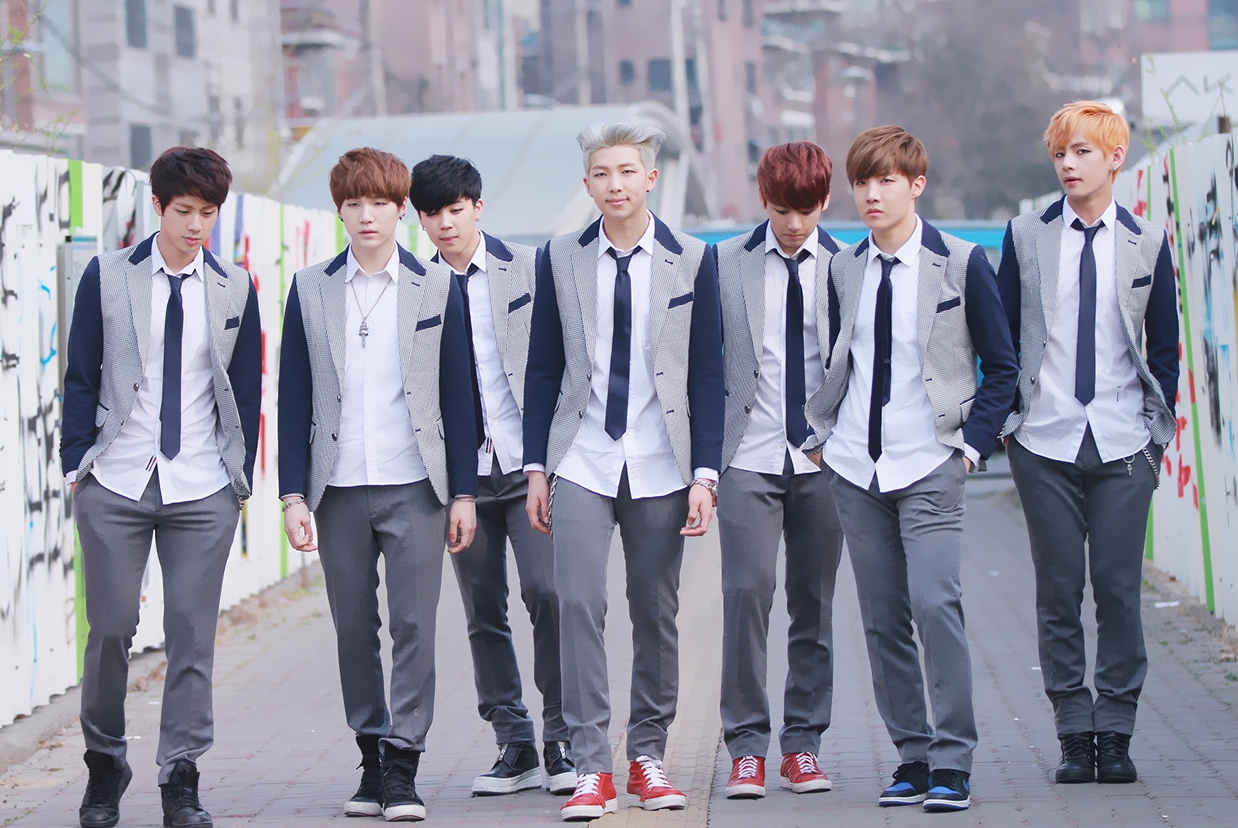 Bangtan Boys in Hongdae on March 27, 2014. From left to right: Jin, Suga, Jimin, Rap Monster, Jungkook, J-Hope and V.